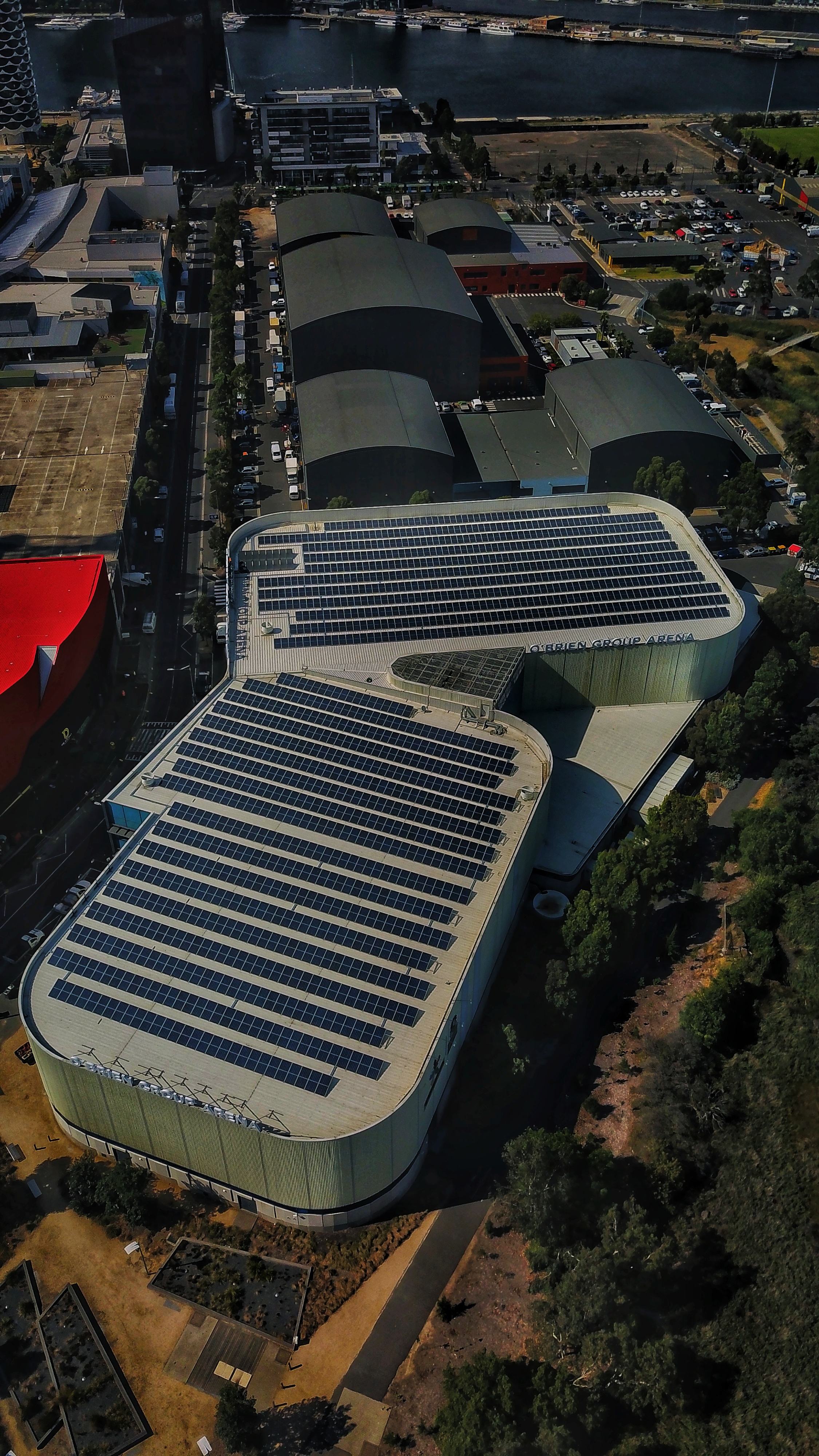 Aerial perspective of the solar system atop O'Briens Group Arena at the Docklands. March 2019.